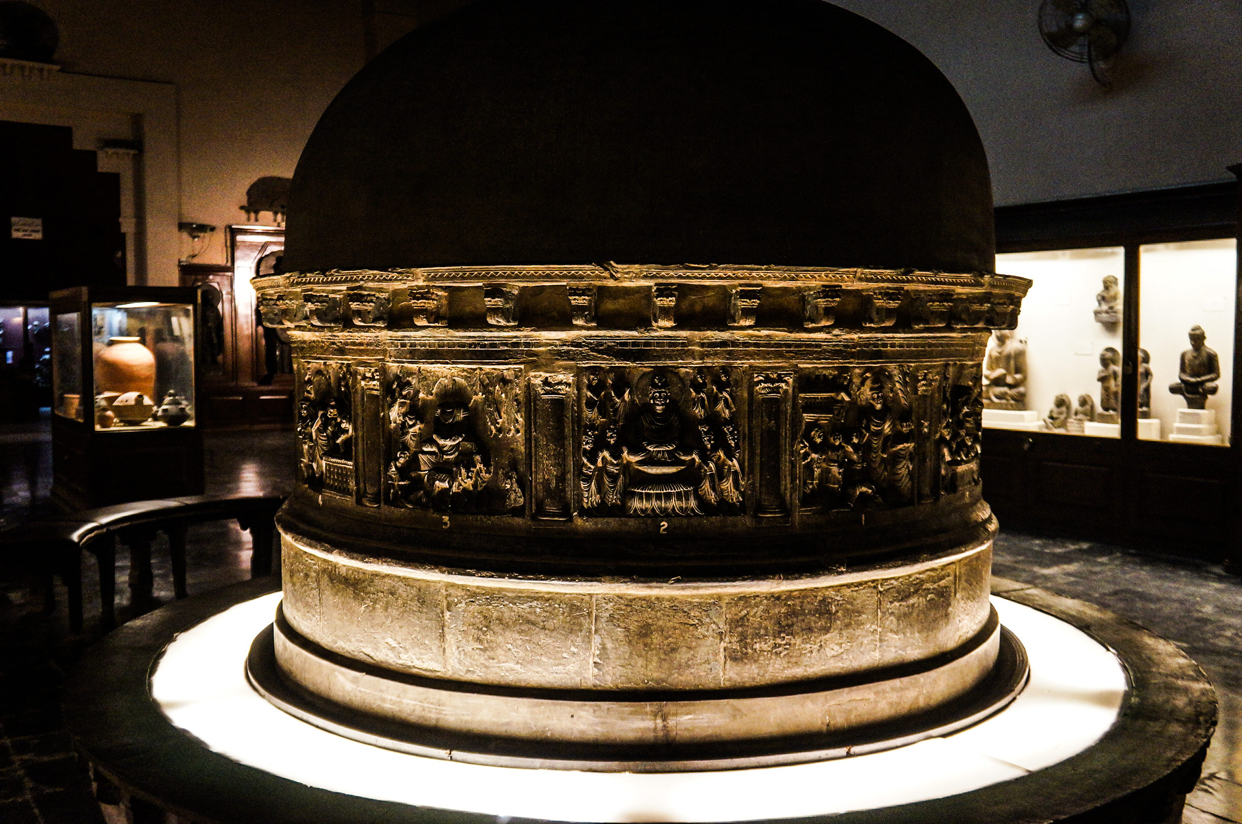 Stupa inside the Lahore Museum This is a photo of a monument in Pakistan identified as the PB-94